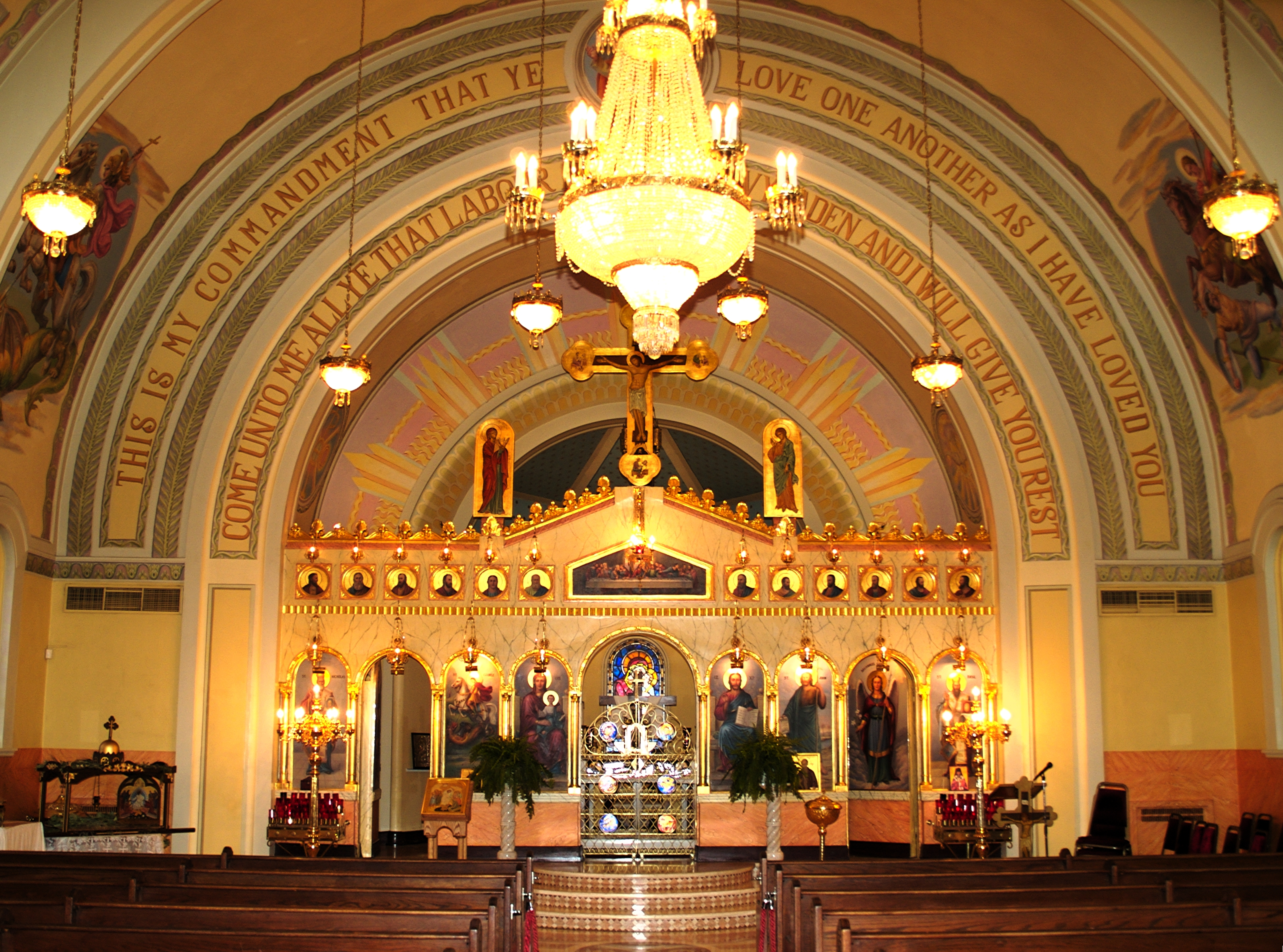 St. George Antiochian Orthodox Church (French: Église Saint-George Antiochian Orthodox) is a brick Antiochian Orthodox church in the Villeray neighbourhood of Montreal, Quebec, Canada. Designed by architect Joseph-Raoul Gariépy, the church was constructed in 1939-40 to serve the Syrian Orthodox community in Montreal. It was designated a National Historic Site of Canada in 1999 as an important symbol of the history and traditions of this community in Canada.